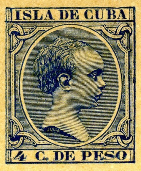 1894 indicium of 4 centavos denomination, printed for Cuba in Spain from a postal card. This portrait of Alfonso XIII as a baby is known in Spanish somewhat irreverently as "el pelón" (baldie) due to the receding hair line.